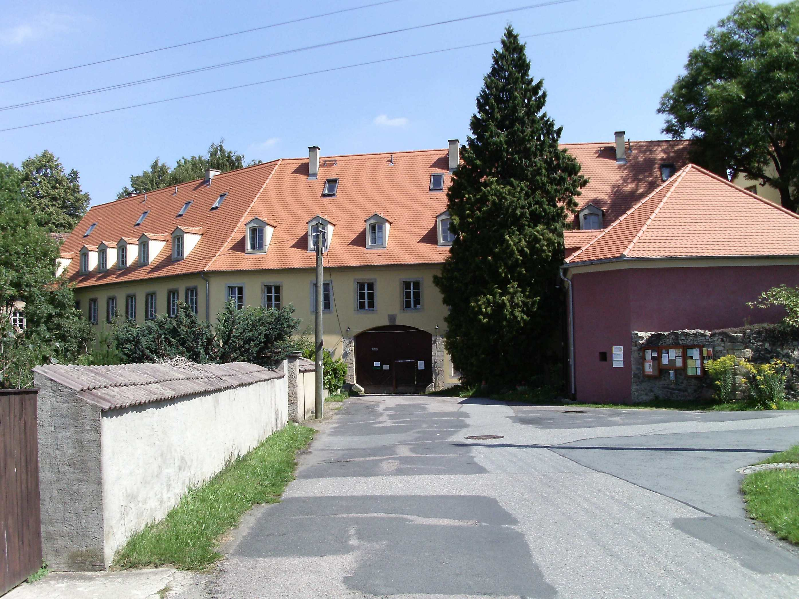 Gateway of Jahnishausen estate (Riesa, Meissen district, Saxony)